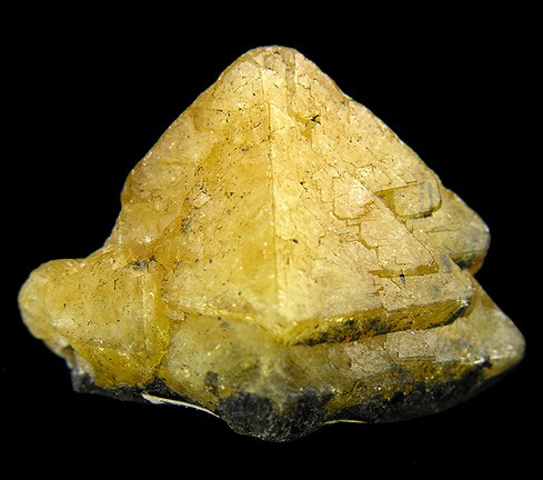 Mellite Locality: Luschitz, Bílina (Bilin), Ústí Region, Bohemia (Böhmen; Boehmen), Czech Republic (Locality at ) Size: 2.2 x 1.7 x 1.7 cm. Mellite is a rare organic compound (aluminum mellitate {benzene hexacarboxylate} hydrate) that is only found in a handful of world localities. Typically, Mellite is found in brown or gray crystals, and to find a sharp, lustrous, yellow crystal like this is certainly rare. The crystal itself is superb quality, and complete on all sides. There are actually some small areas on this crystal that are gem quality. The piece comes from the Rich Kosnar Collection (specimen #512), and comes with one of Rich's signature hand-written collection labels.